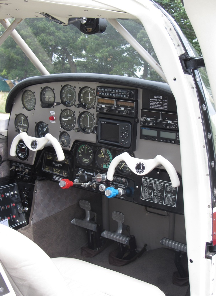 An updated Bellanca 14-9-3 panel